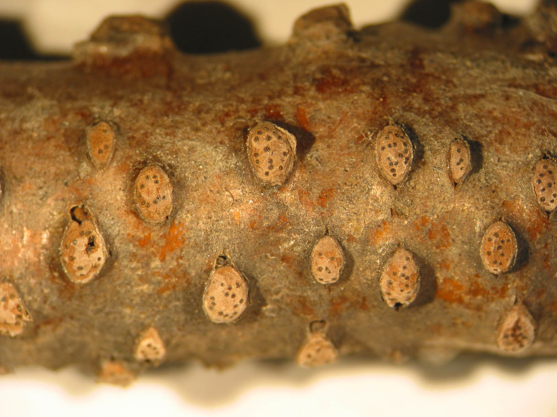 Leucodiaporthe maackii